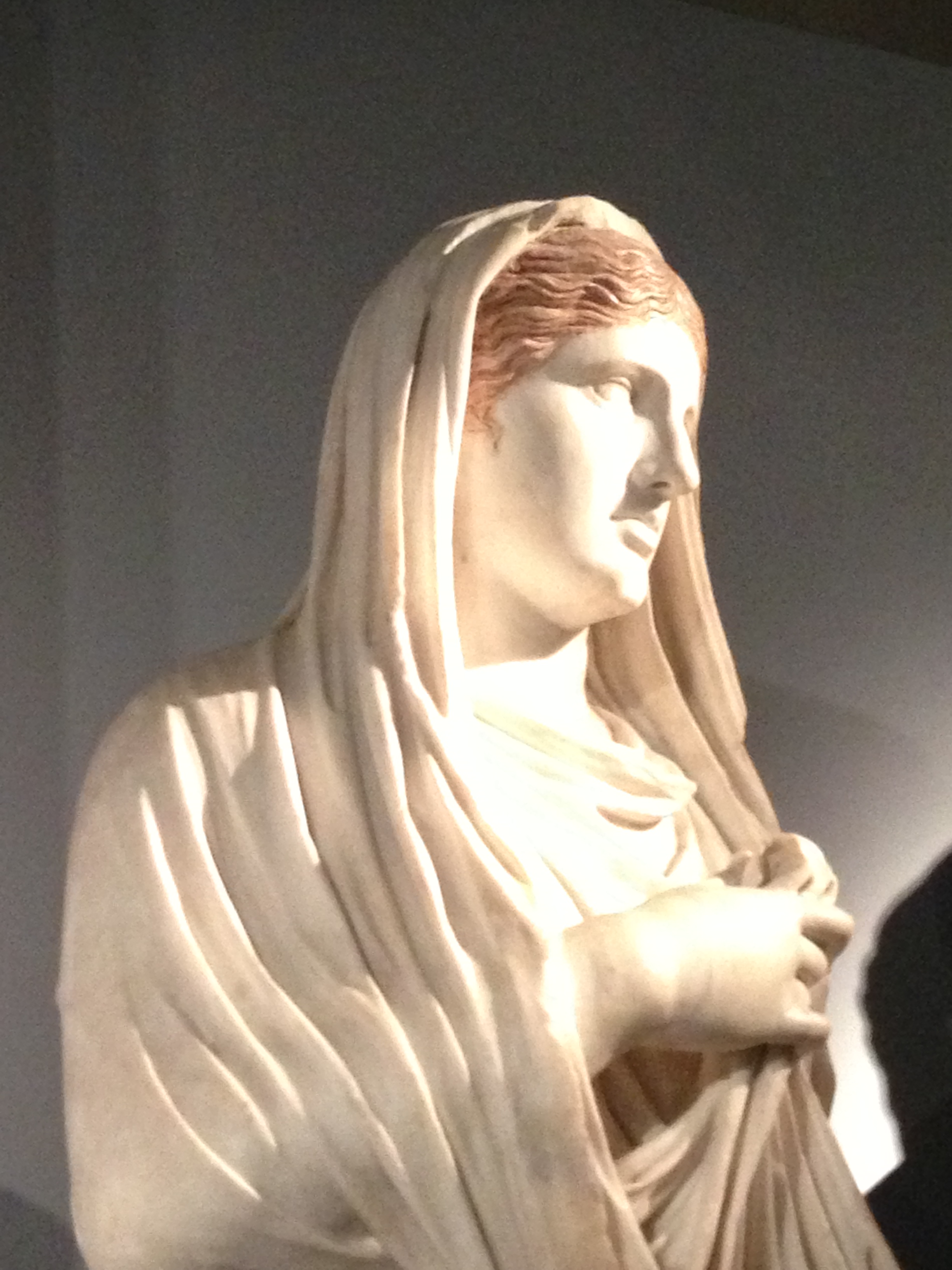 An ancient statue of Eumachia, a public priestess of Venus in Pompeii, displayed in the exhibition Life and Death in Pompeii and Herculaneum at the British Museum, London, UK. The statue is in the Naples National Archaeological Museum, Naples, Italy.